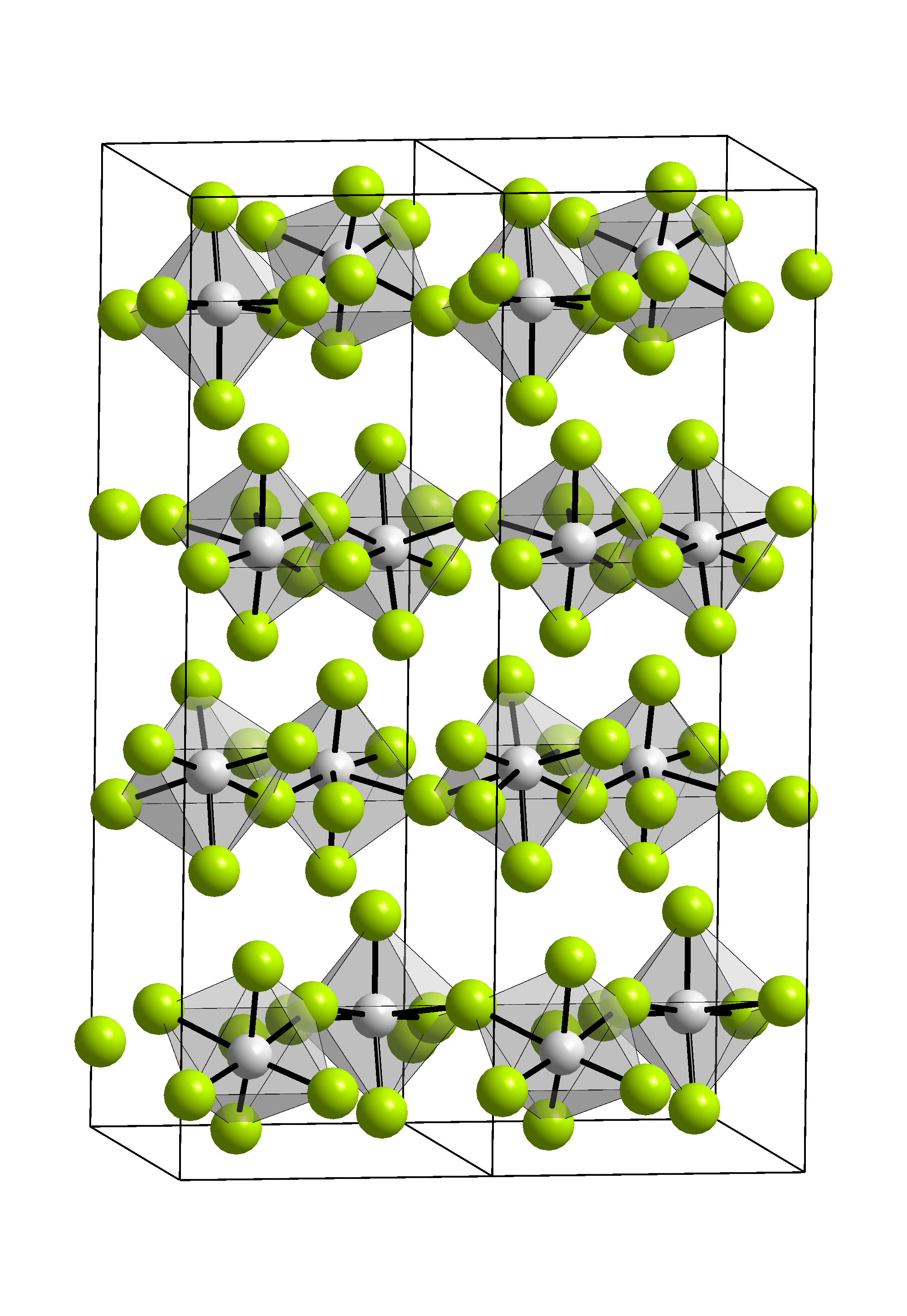 Crystal structure of Vanadium(V) fluoride